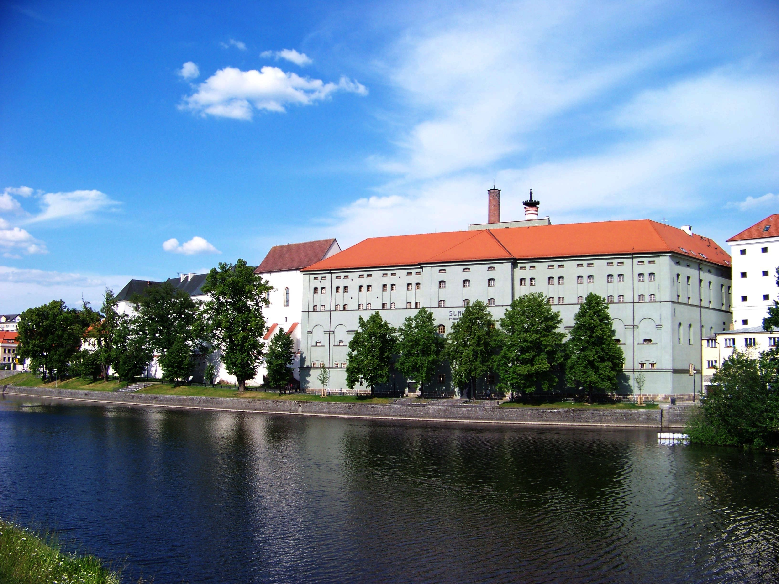 Písek-Vnitřní Město, Písek District, South Bohemian Region, the Czech Republic. The malthouse and the castle, Otava river.